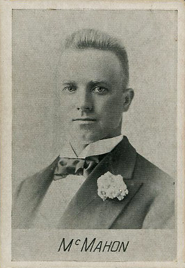 Sadie McMahon baseball card